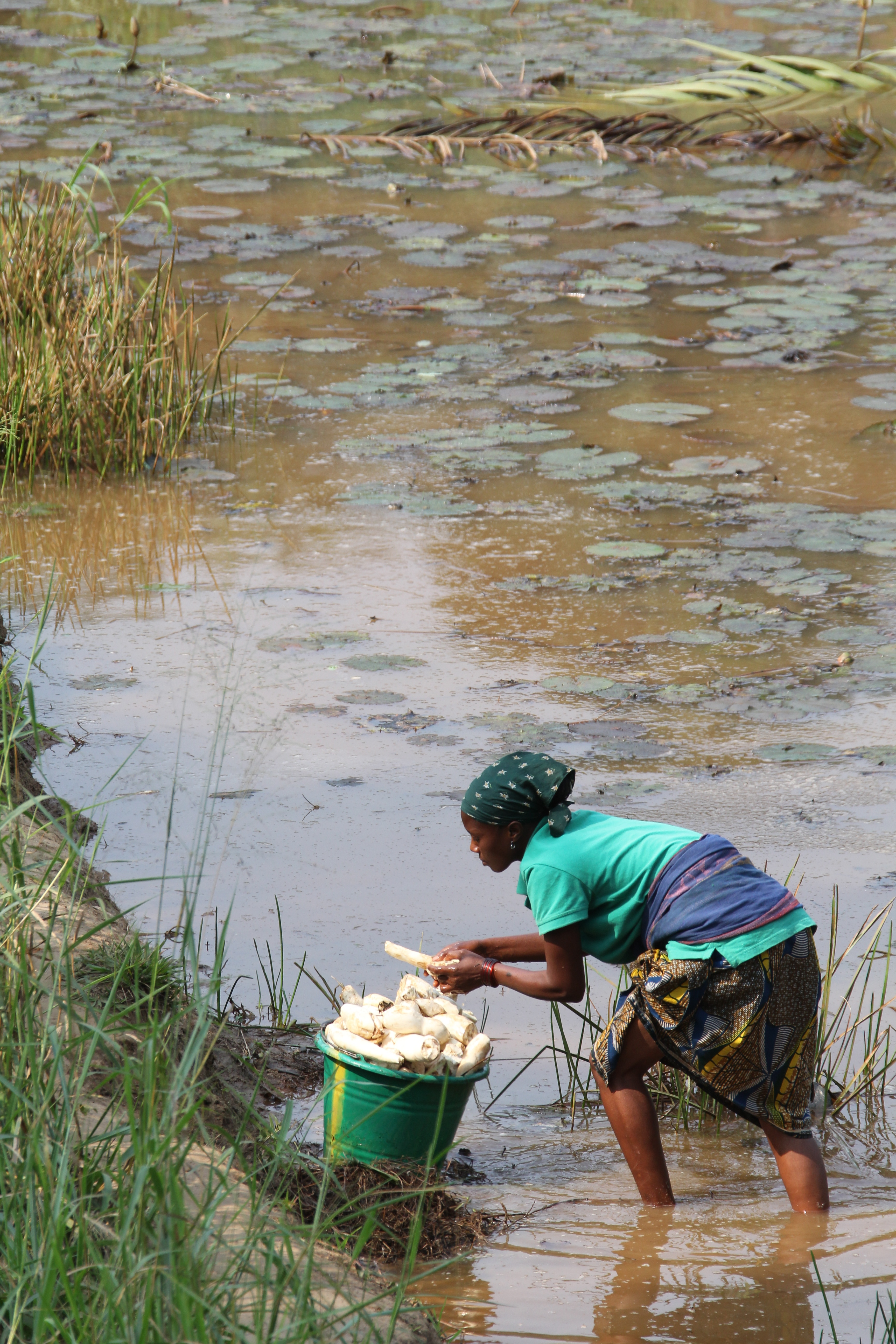 Cassava (or manioc) is the vegetable that forms the staple food in the diet of most people in rural DRC. Although it is easy to grow, the problem is that it has little nutritional value. Background UK aid has supported the government of DRC and aid agencies including Action Against Hunger to provide emergency nutrition response programmes across DRC in 2010 and 2011. In some areas, the communities have taken some of the ideas that Action Against Hunger brought to them, and organised themselves to tackle malnutrition from the ground up - by forming their own co-operative farms and self-support groups. Read the full story at